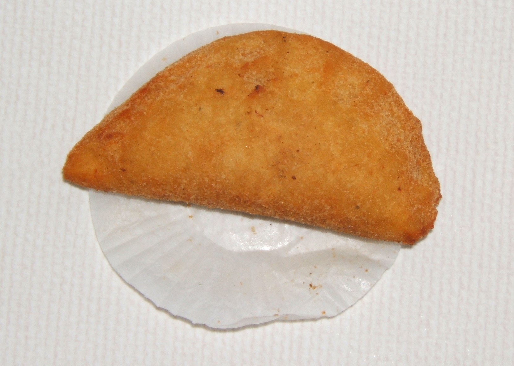 Another photo of risole.